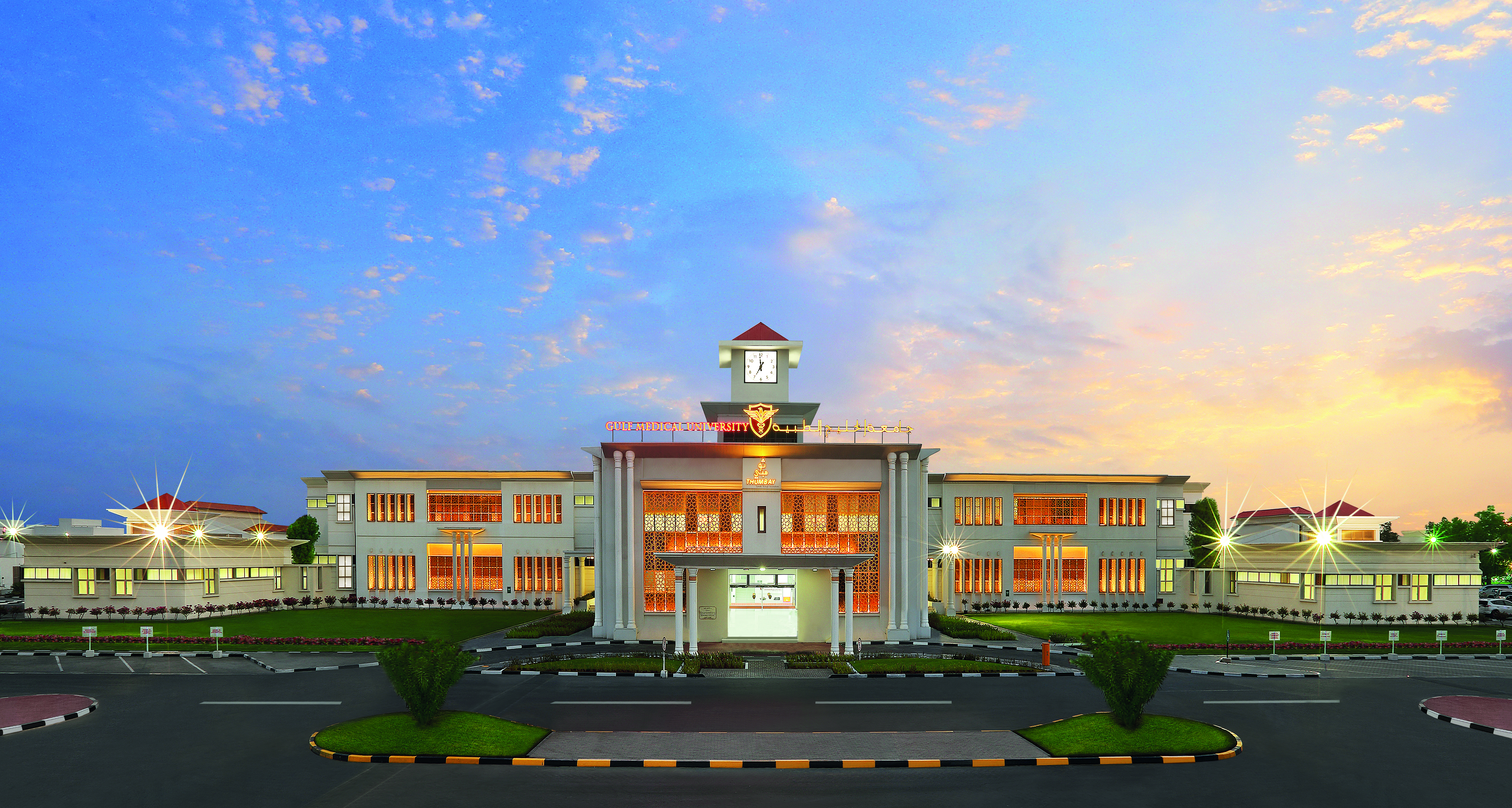 The main building of Gulf Medical University